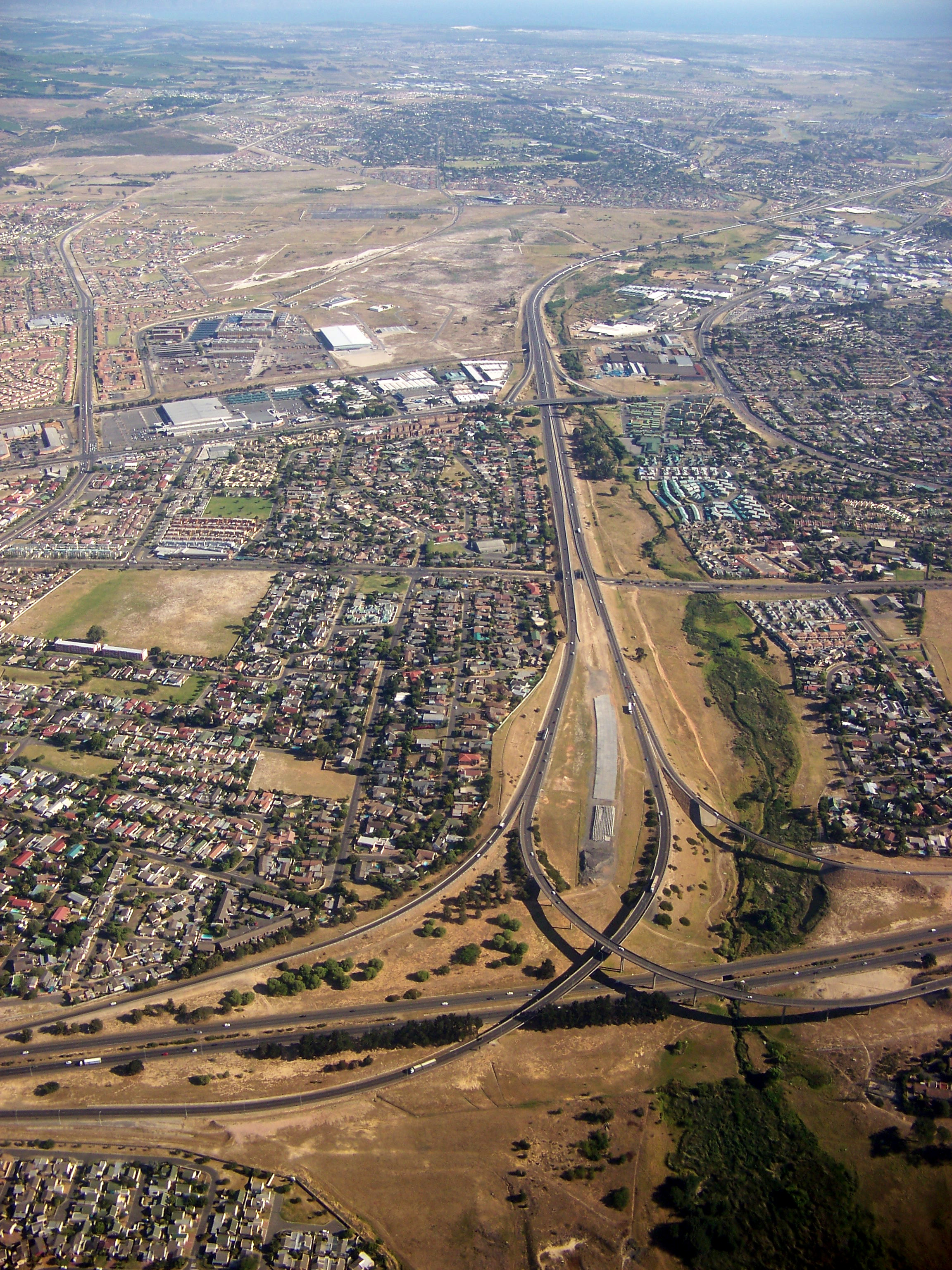 R300 Freeway from the N1 Stellenberg Interchange